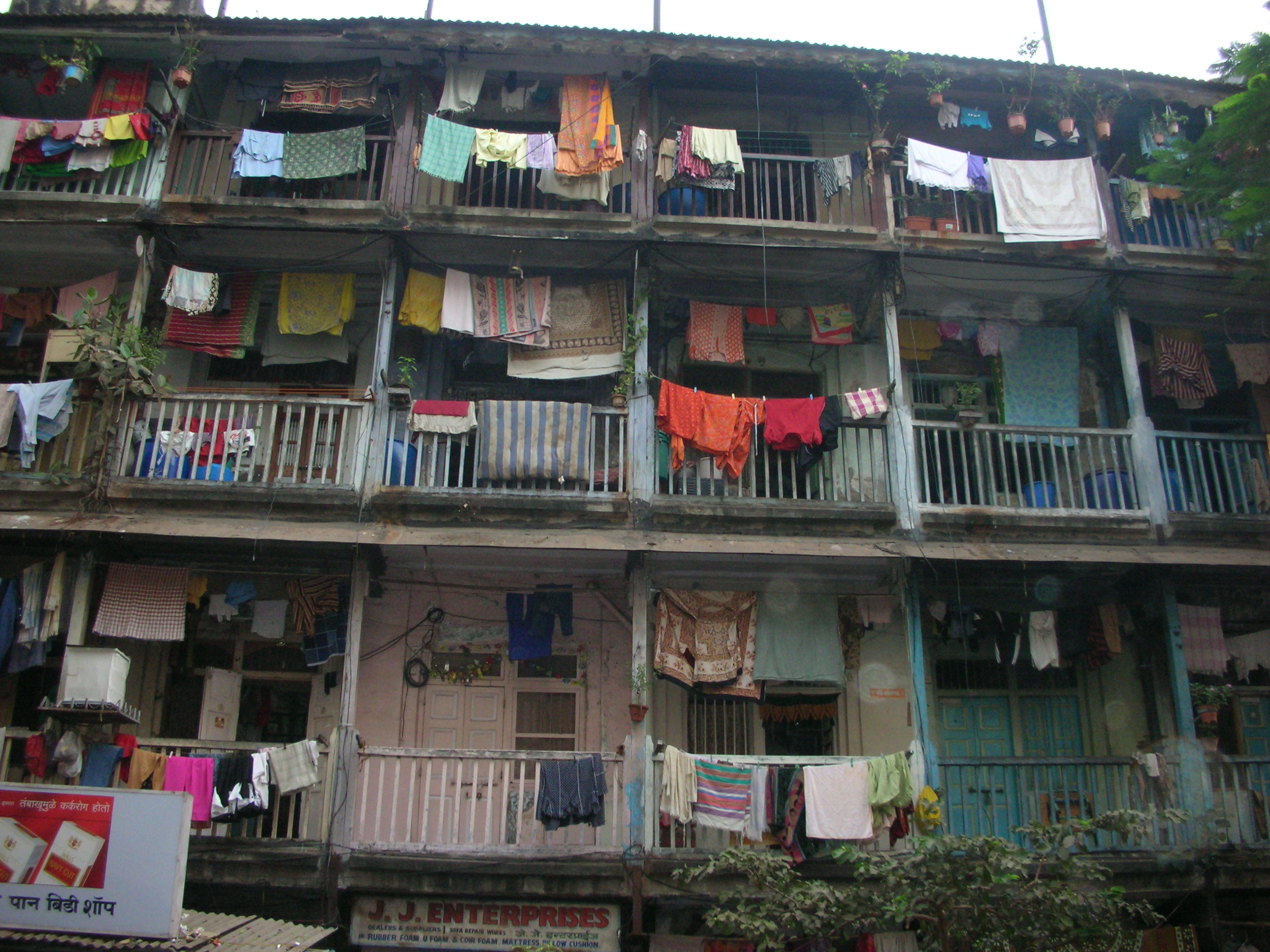 A chawl is a name for a type of building found in India.